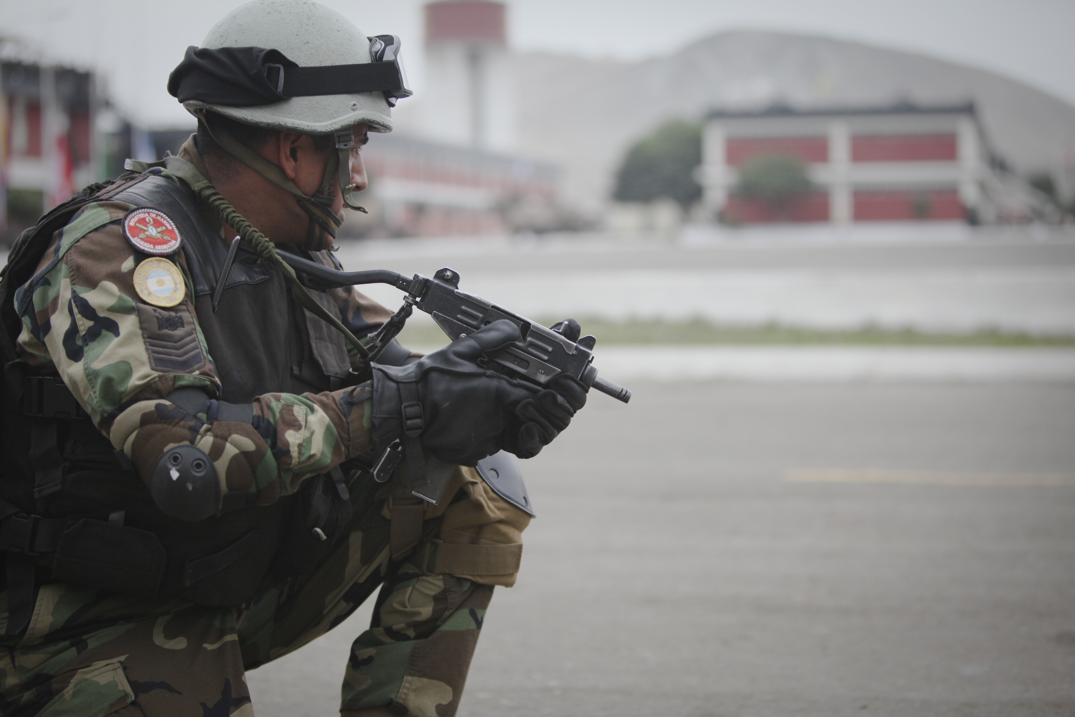 A joint service special forces team member from Argentina posts security while hostages are extracted onto a U.S. Marine Corps CH-46 Sea Stallion helicopter during a multinational amphibious beach assault training exercise in Ancon, Peru, July 19, 2010. U.S. Marines were deployed in support of operation Partnership of the Americas/Southern Exchange, a combined amphibious exercise with maritime forces from Argentina, Mexico, Peru, Brazil, Uruguay and Colombia.